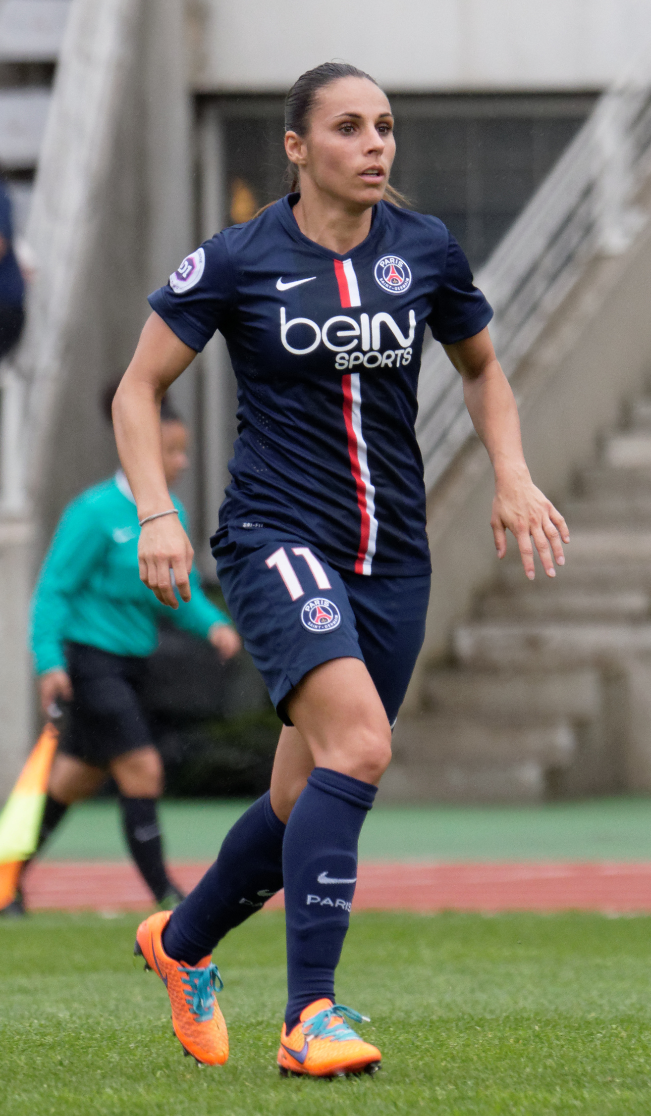 PSG vs Rodez, 3rd May 2015.